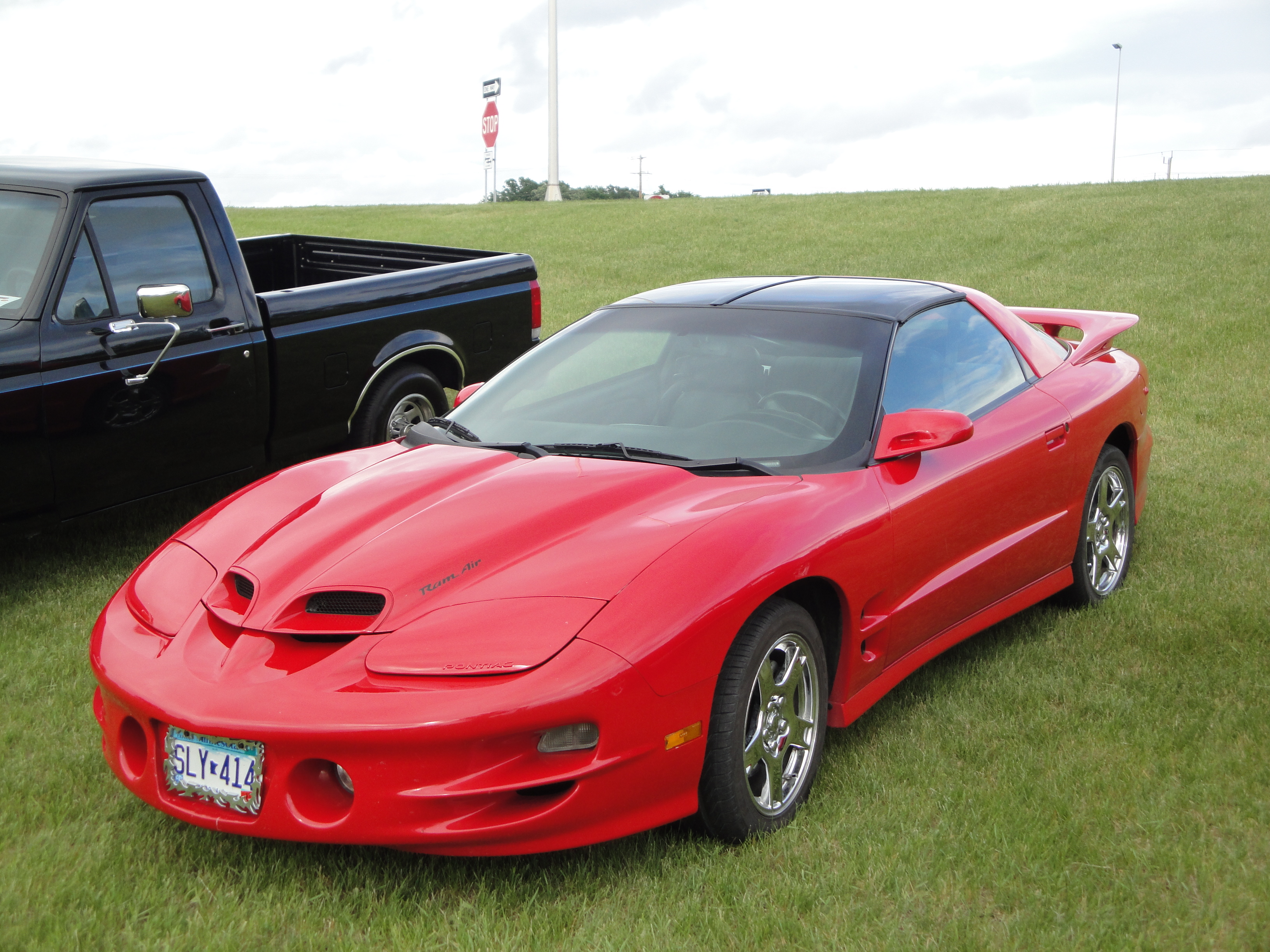 A&W Country Stop Cruise Night New London, Minnesota